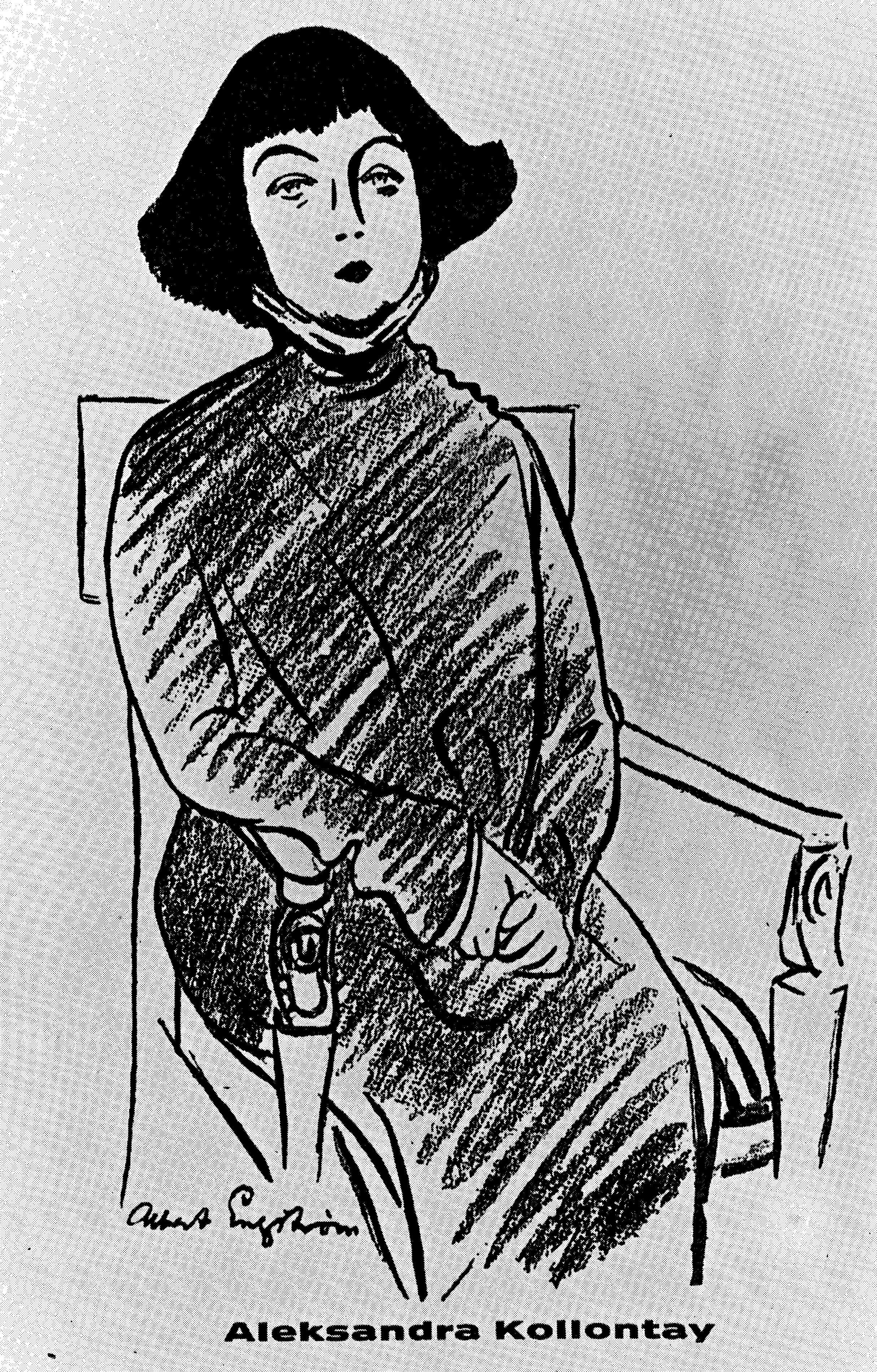 Alexandra Kollontay.